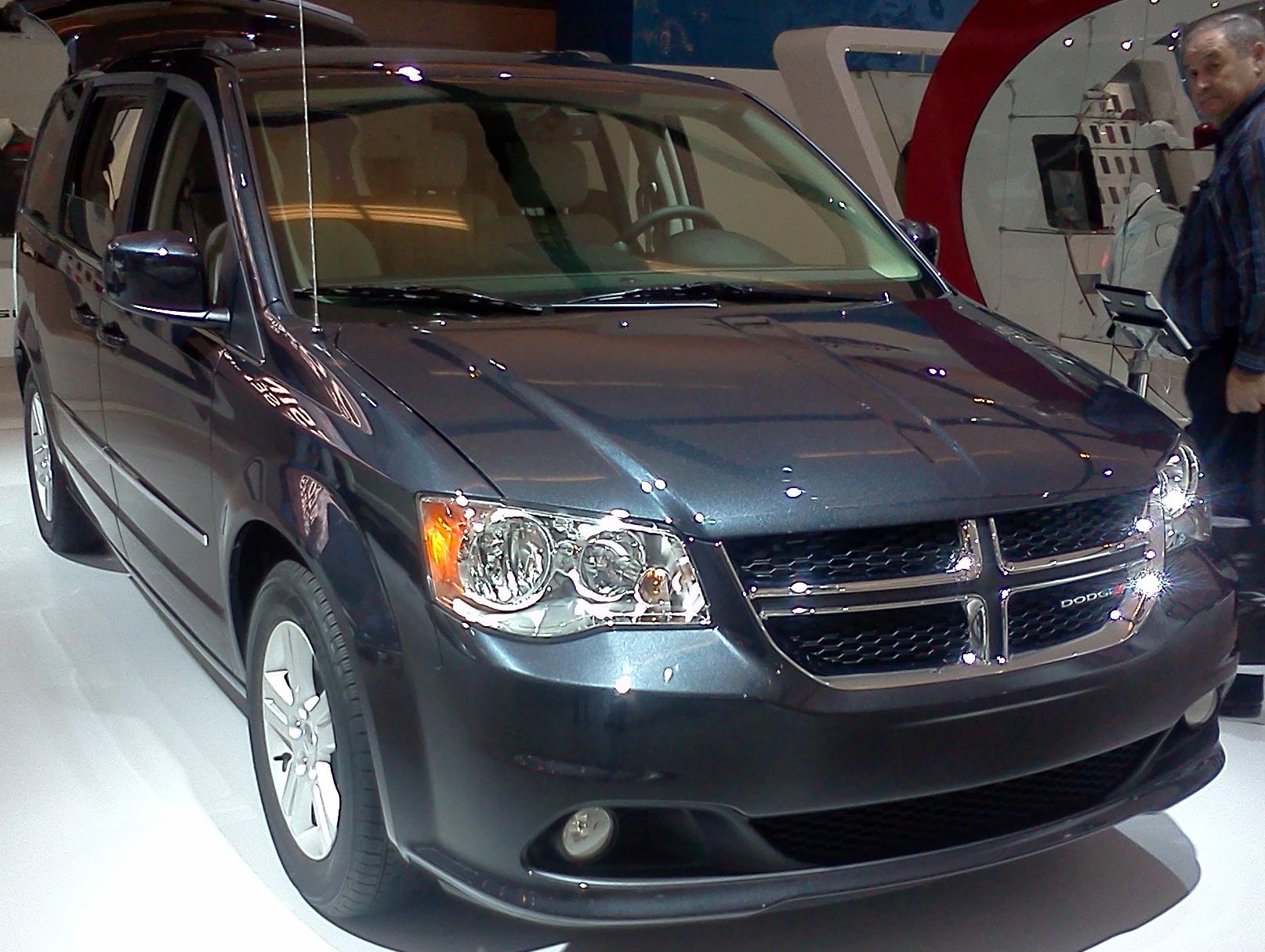 2014 Dodge Grand Caravan photographed in Montreal, Quebec, Canada at the 2014 Montreal International Auto Show.